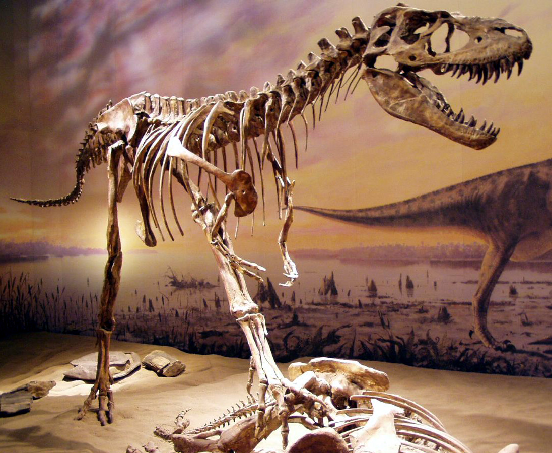 Gorgosaurus at the Royal Tyrrell Museum.